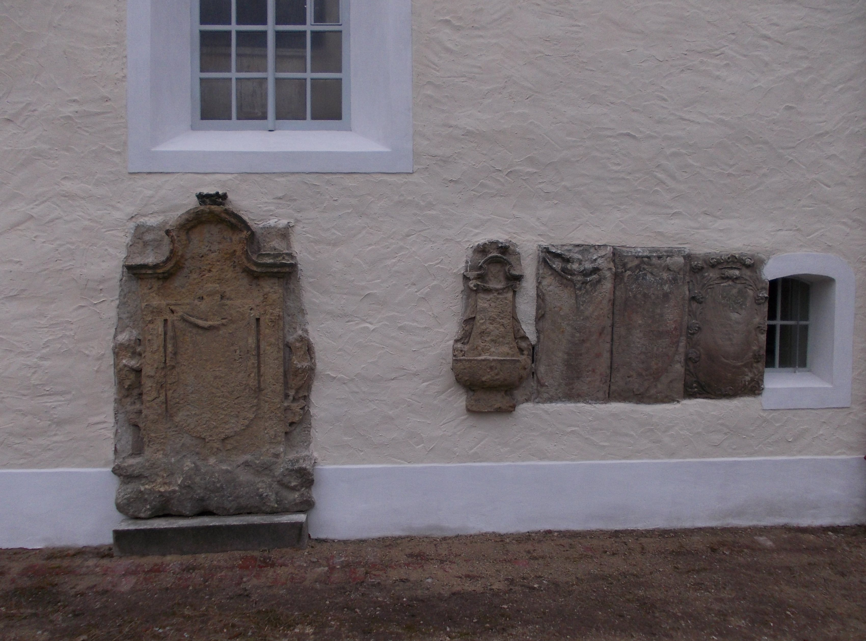 Epitaphs at the northern wall of Weltewitz church (Jesewitz, Nordsachsen district, Saxony)